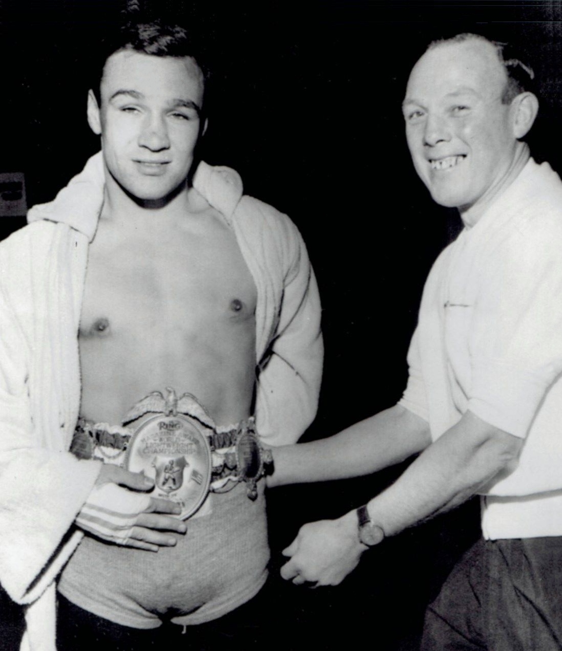 1959 Wire Photo modeling Joe Brown Lightweight Champion belt boxer Dave Charnley